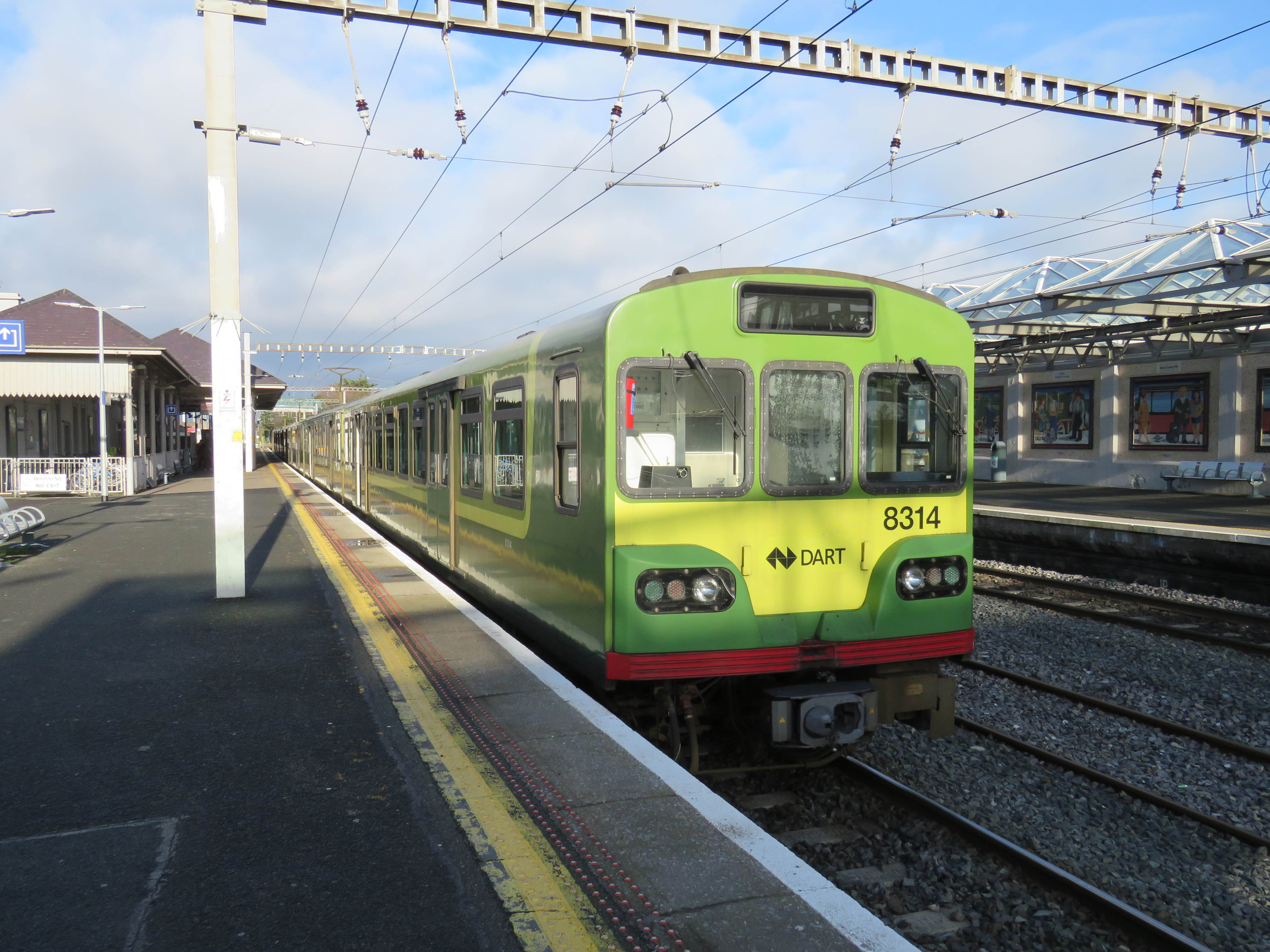 DART (Dublin Area Rapid Transit) train at Bray station